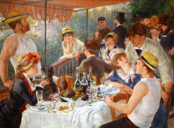 Auguste Renoir: Luncheon of the Boating Party